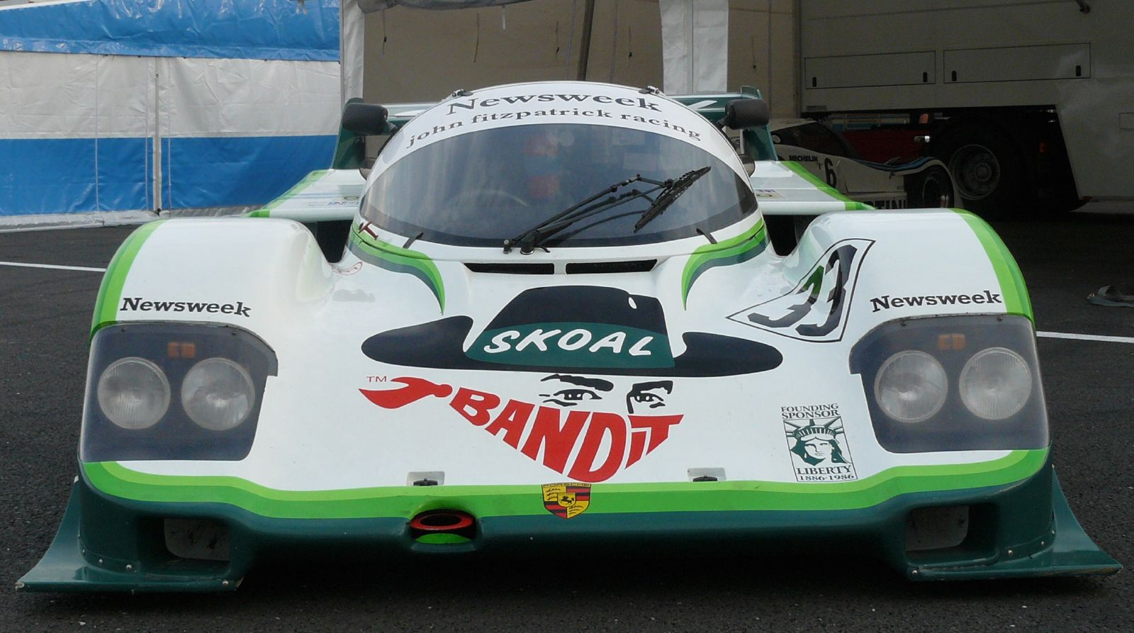 A Porsche 956 at the Silverstone Classic